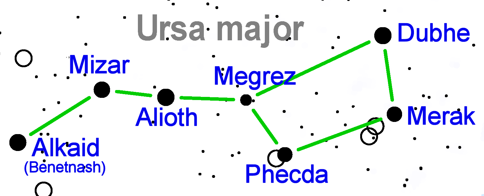 Constellation Ursa Major with all star names